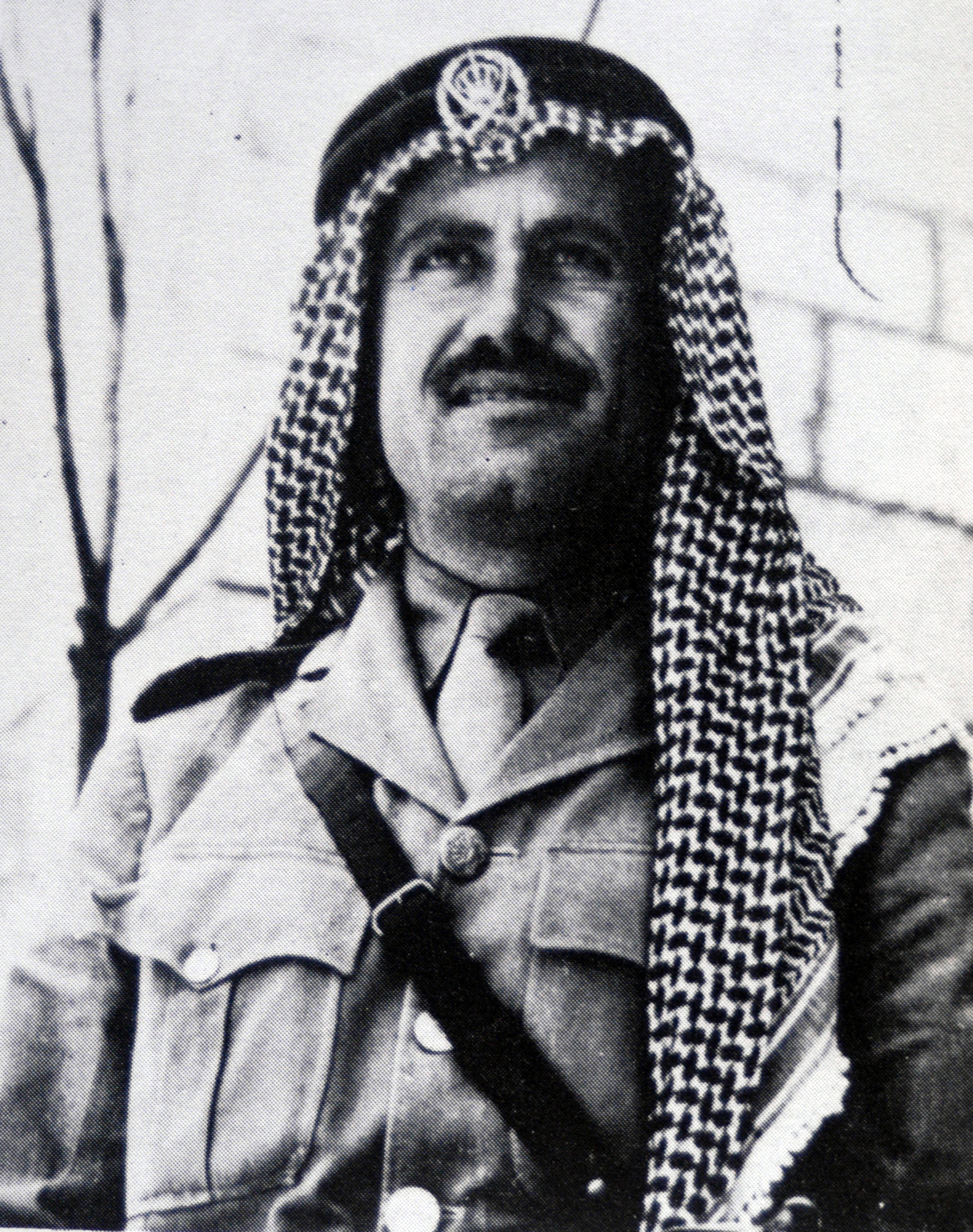 "Abdullah Tell, 30, Shaltiel's opponent, was the youngest Arab major in Glubb Pasha's Arab Legion. The son of a landowning family in Transjordan, he dreamed of "undoing the injustice of partition." When Old Jerusalem was about to fall to Shaltiel's men, King Abdullah ordered him to "go save Jerusalem.""